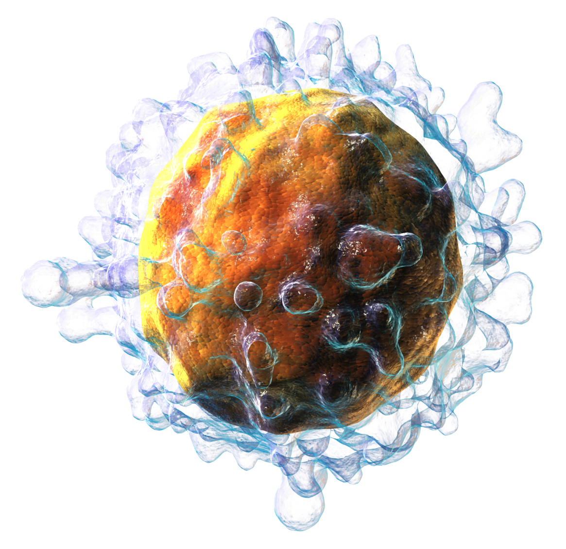 3D illustration of a lymphocye cell